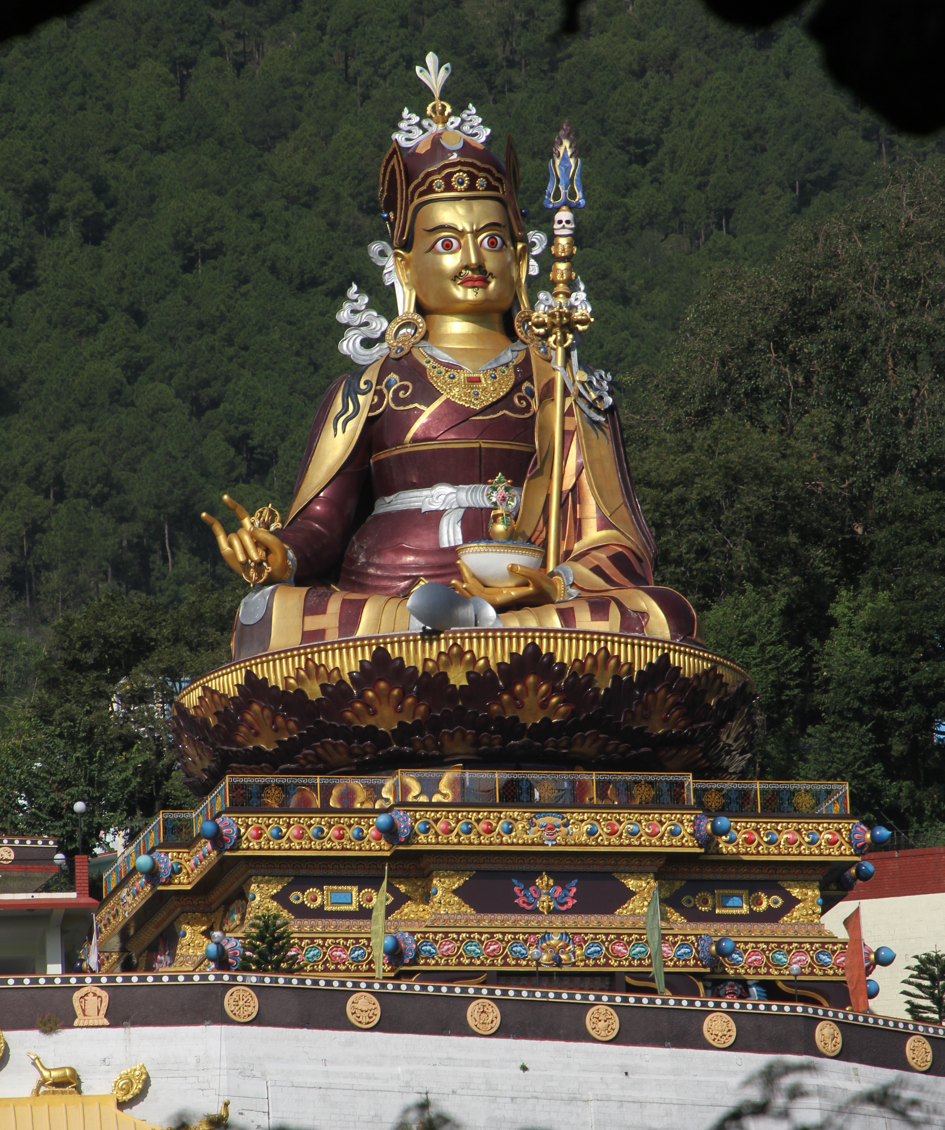 Padmasambhava statue in Rewalsar in Himachal Pradesh in India